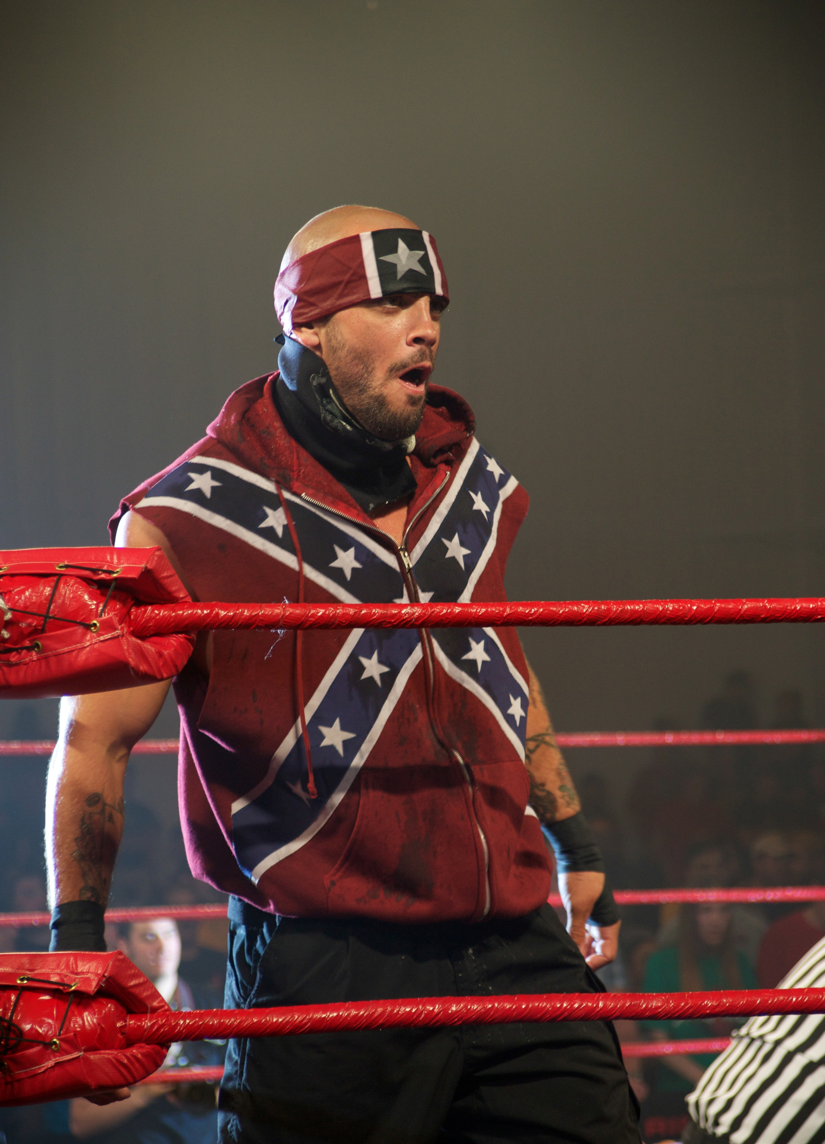 Jay Briscoe at a Ring of Honor television taping in 2011.